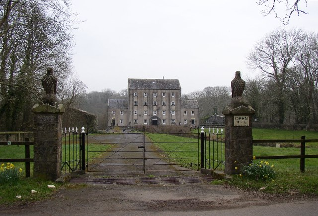 Blackpool Mill. This mill almost looks like a stately home. Inside there is a museum